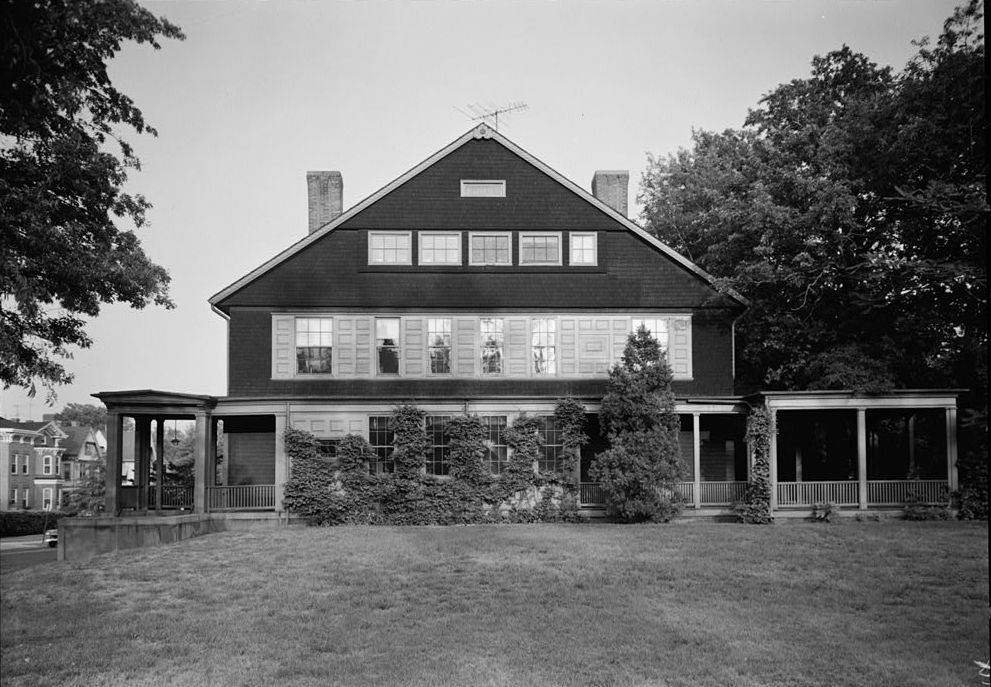 Atwater-Ciampolini House, 321 Whitney Avenue, New Haven, Connecticut. West, front view 1964 photo from the HABS—Historic American Buildings Survey of Connecticut. Photographed by Ned Goode, July, 1964. (cropped to remove border in 2010).